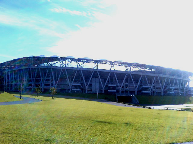 Taken by user.